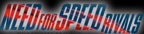 carreras